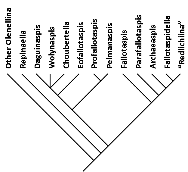 Schematic of the relationships between the genera in the Fallotaspoidea superfamily and with other trilobites, after Lieberman 1998, 1999, 2001, 2002